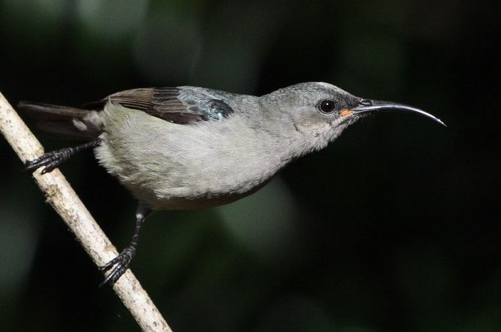 Juvenile Grey Sunbird, Nectarinia veroxii, at Queen Elizabeth Park, Pietermaritzburg, South Africa